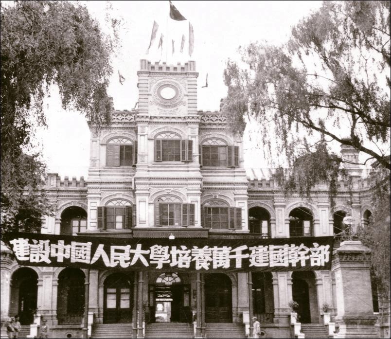 Renmin University of China, 1950-1952